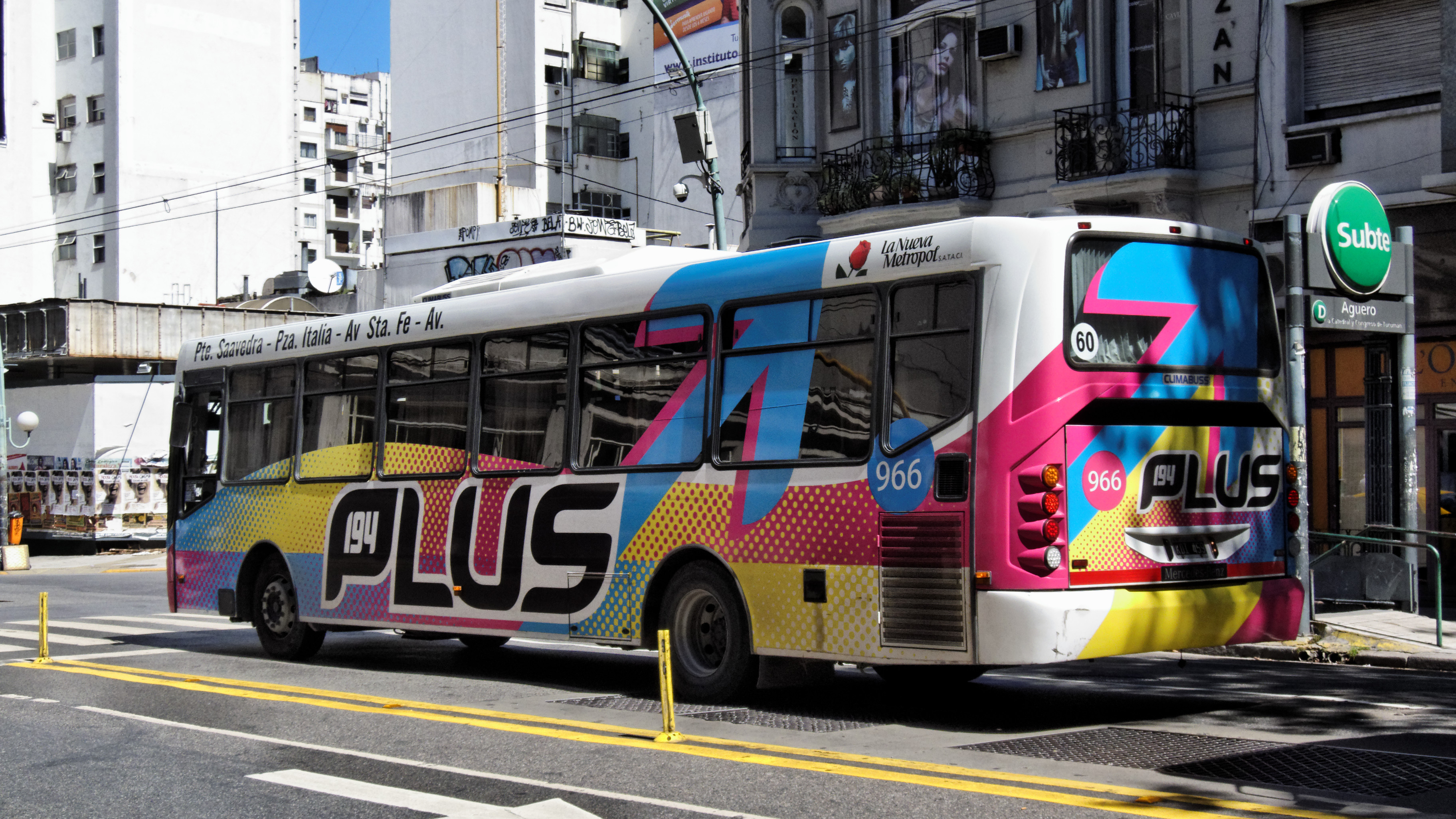 Metalpar Iguazú II bus (reg. KDI 459, #966) with Mercedes-Benz OH 1618 L-SB chassis in Buenos Aires, Argentina. Colectivo, line 194 Plus, PLUS (La Nueva Metropol S.A.) operator.